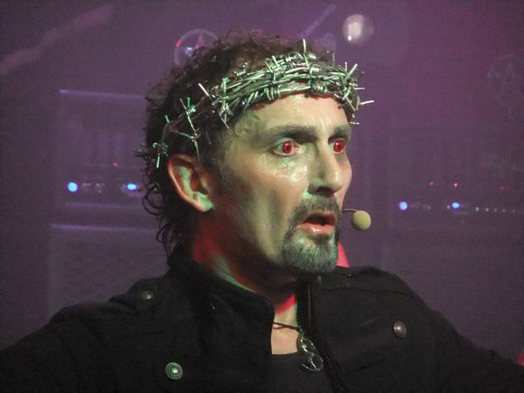 David Bower, photo taken live at the MFN Club in Nottingham during the band's first gig in 25 years